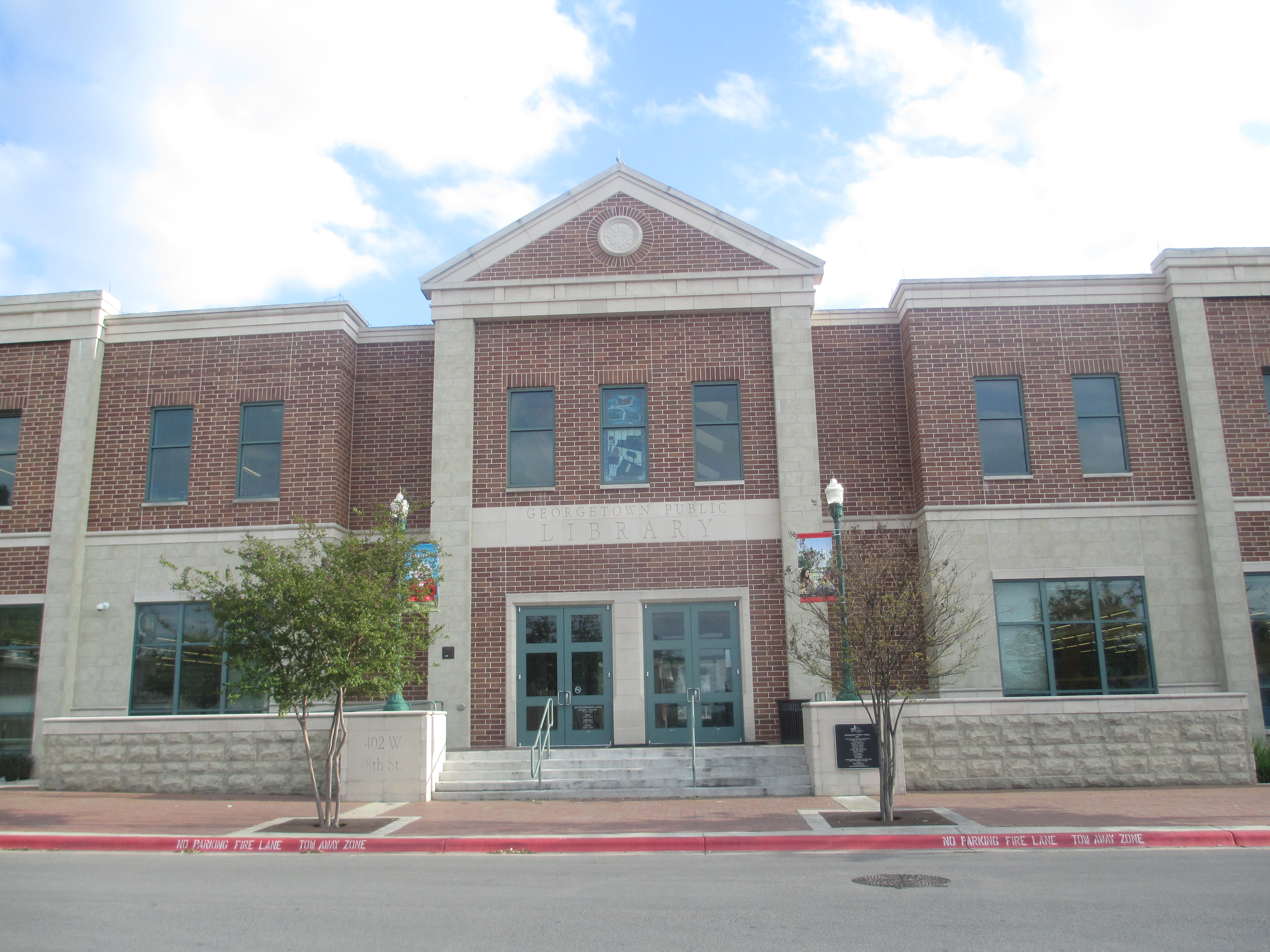 I took photo of Georgetown Public Library in Georgetown, TX, with Canon camera, April 7, 2013.Billy Hathorn (talk) 11:22, 10 April 2013 (UTC)